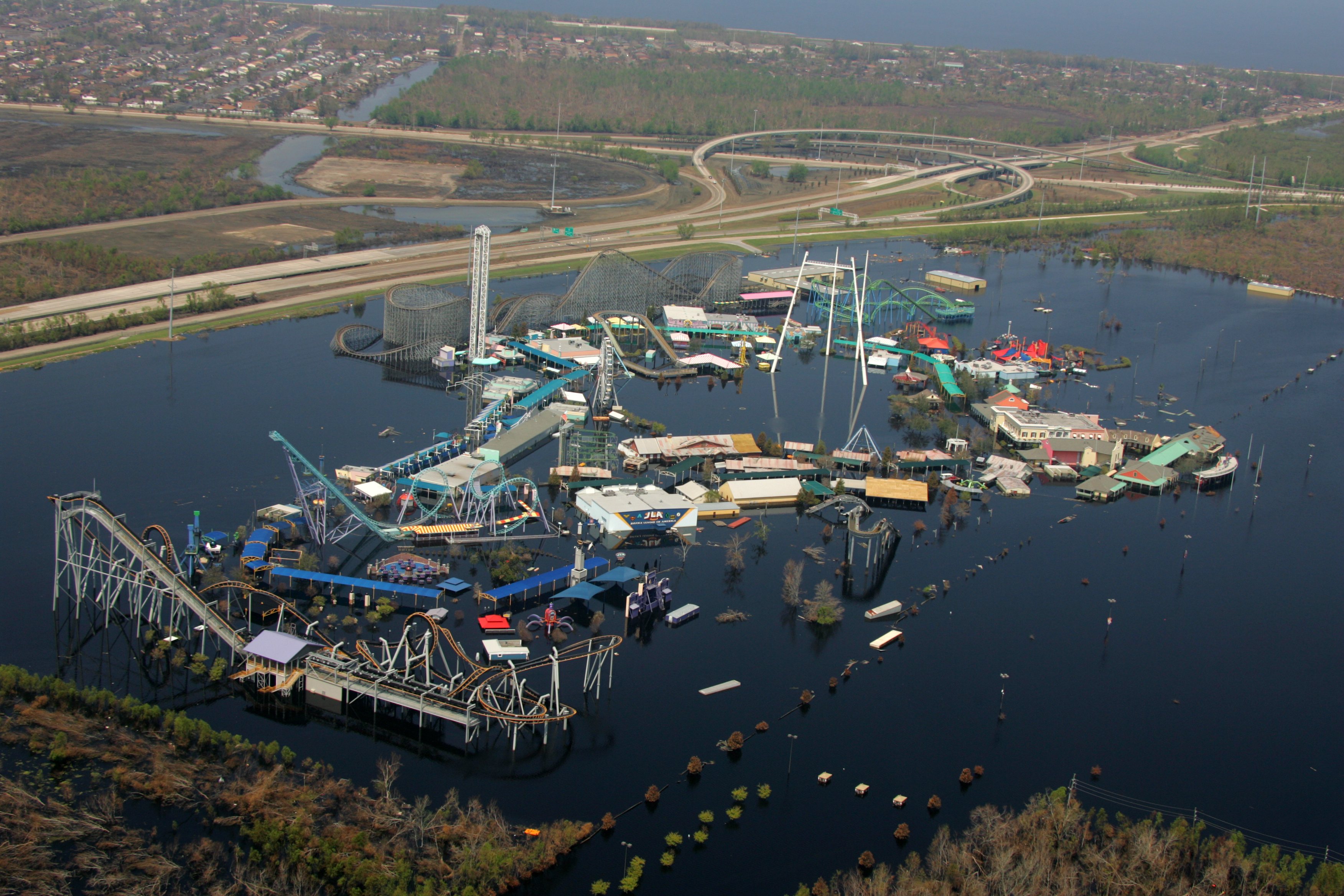 New Orleans, LA, Sept. 14, 2005 -- Six Flags Over Louisiana remains submerged two weeks after Hurricane Katrina caused levees to fail in New Orleans. Bob McMillan/FEMA Photo.